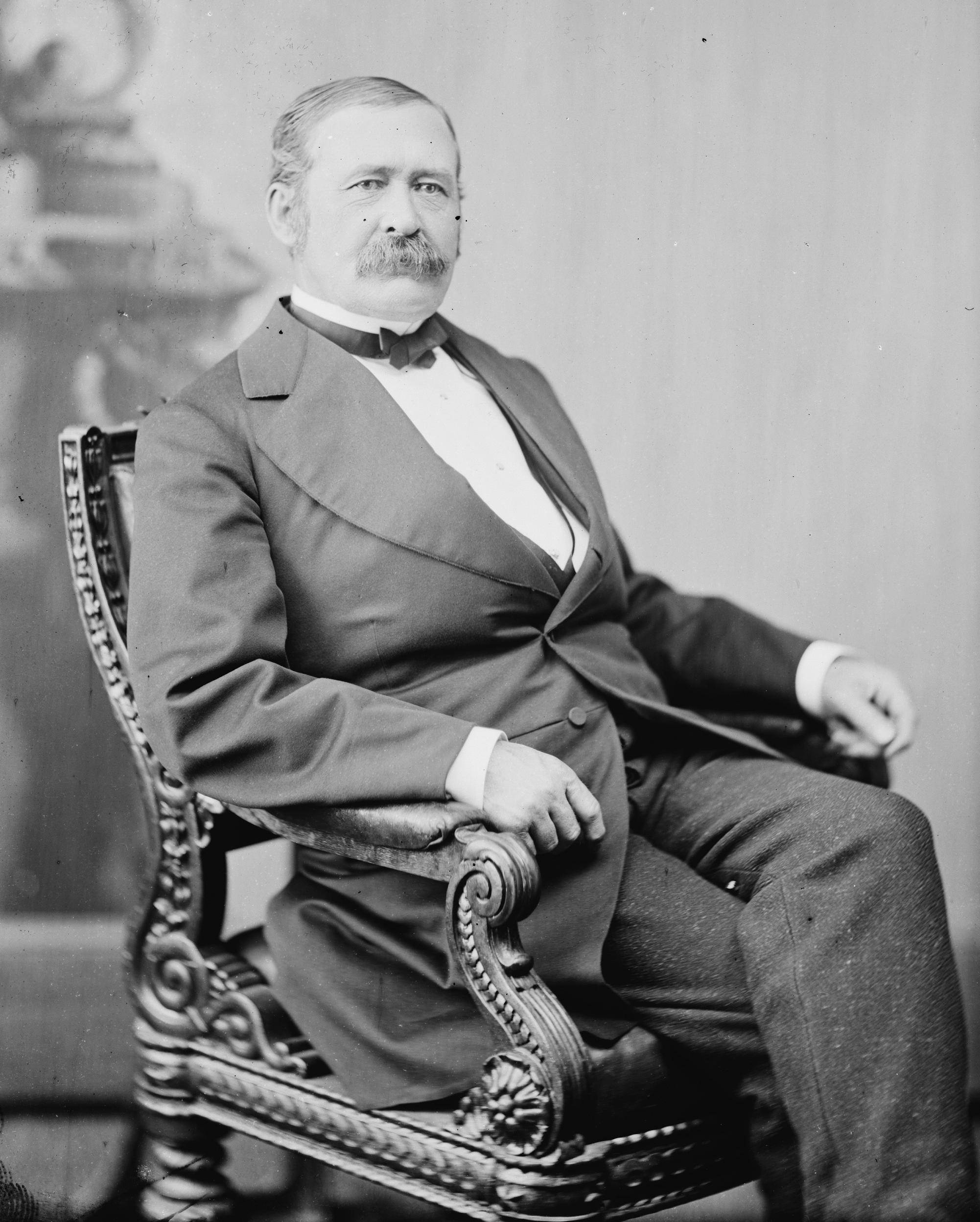 John Milton Thayer. Library of Congress description: "Thayer, Hon. John Milton of Wyoming & Nebraska. Brig Gen & major of the Territorial forces operating against the Pawnee Indians in 1855-61. Colonel of 1st Nebraska Inf. July 21, 1861".